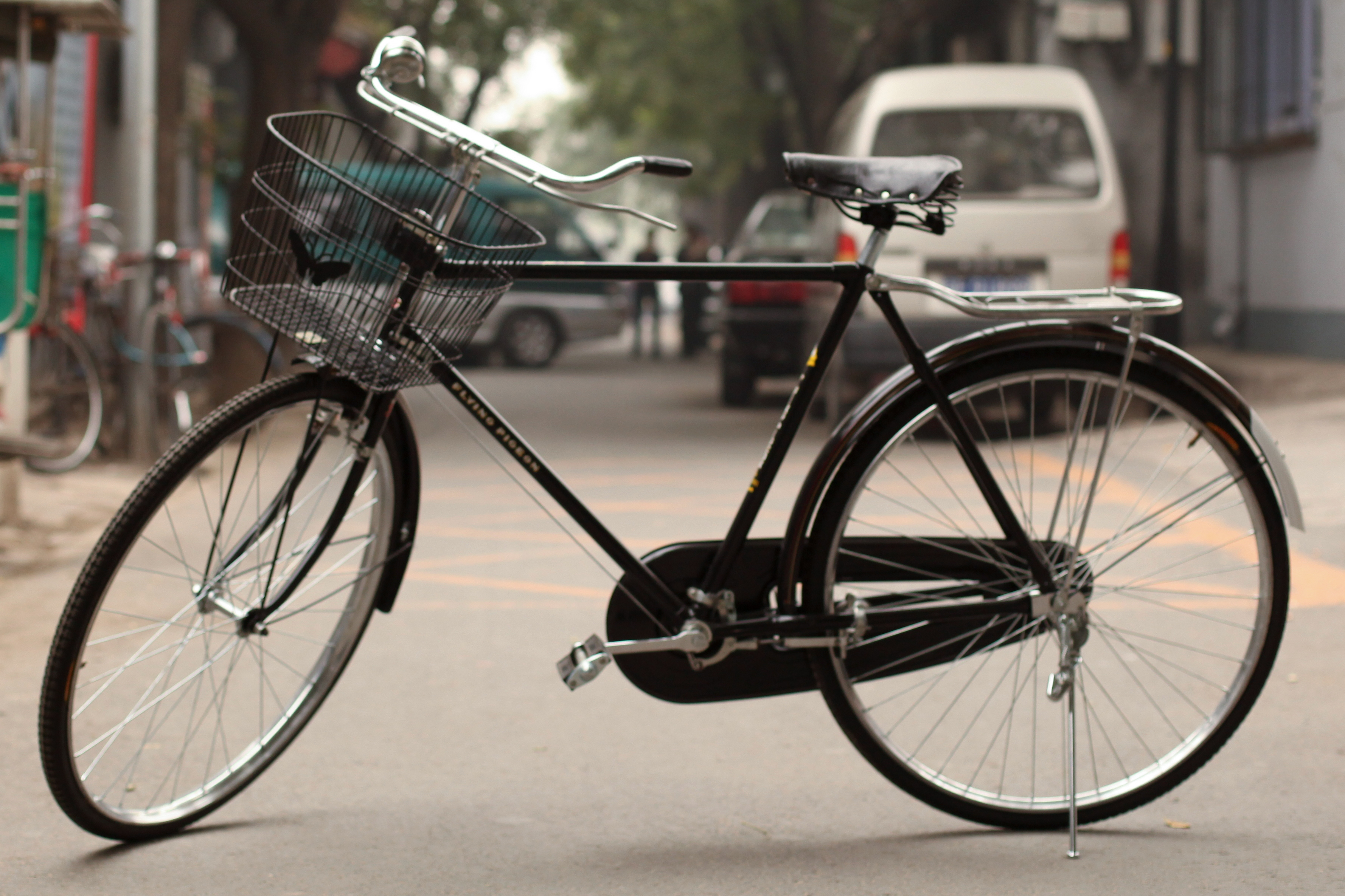 On 5 July 1950, the first Flying Pigeon bicycle was produced. It was the brainchild of a worker named Huo Baoji. He based his classic model on the 1932 English Raleigh Roadster.